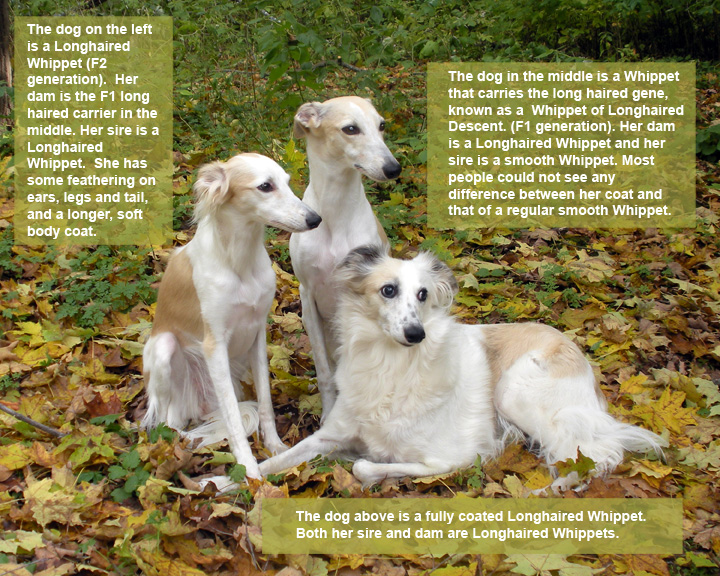 Three longhaired whippets at different stages of coat development